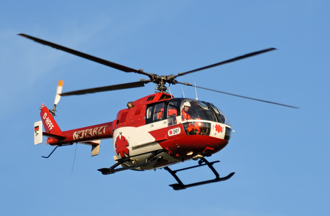 This image shows a helicopter of the type "Bölkow Bo 105".